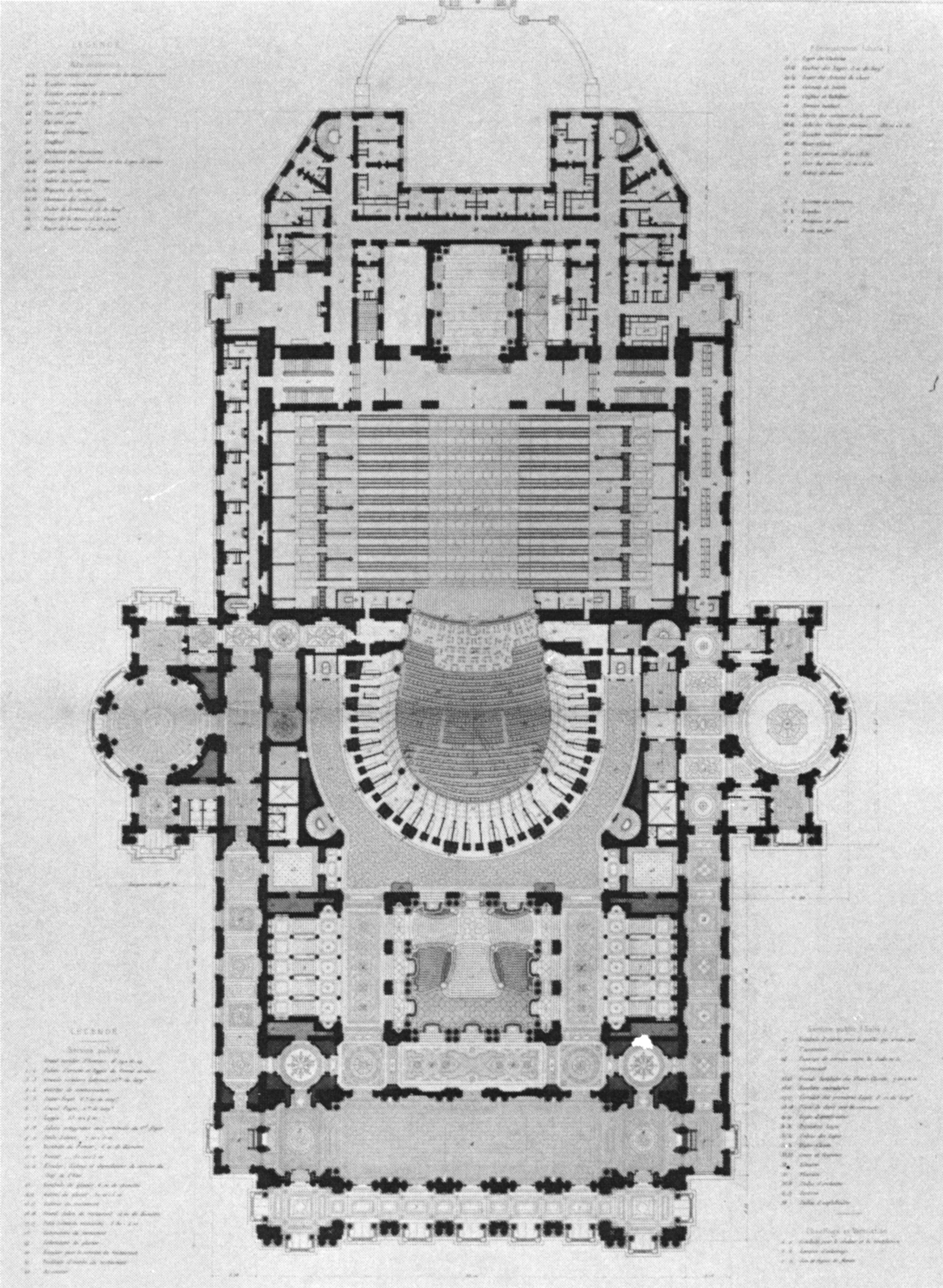 Plan the the first loge level of the Paris Opera's Palais Garnier